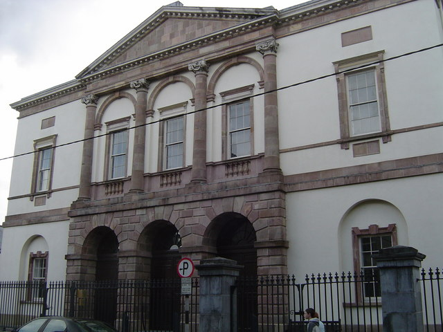 The Court House, Cluain Meala (Clonmel) Built c. 1800 to the design of Sir Richard Morrison, it replaced the Main Guard 260570 as the seat of the Assizes Courts. The "Young Irelanders" were tried here in 1848